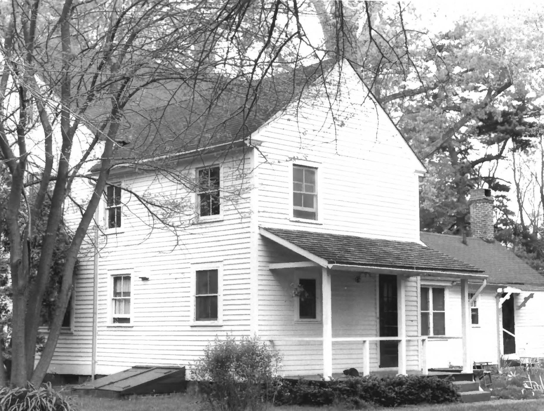 Kimberly Mansion, Glastonbury (Hartford County, Connecticut) cropped This image or media file contains material based on a work of a National Park Service employee, created as part of that person's official duties. As a work of the U.S. federal government, such work is in the public domain in the United States. See the NPS website and NPS copyright policy for more information. Object location41° 41′ 22″ N, 72° 36′ 26″ W